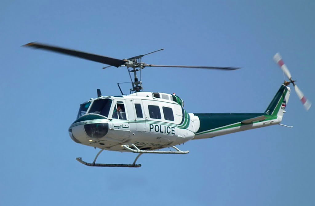 An AB-205A belonging to NAJA (National Police of Iran) flying over Arak.